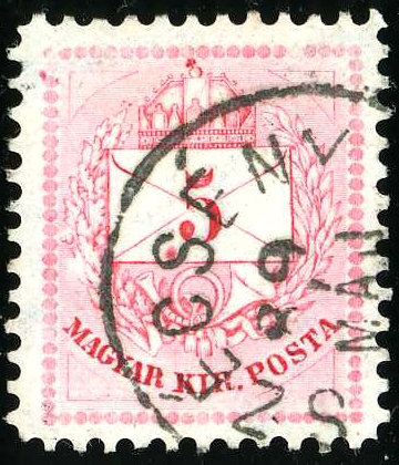 5 kr KH anilin-rose issue 1881, cancelled at Szécsény in 1889. Michel N°23A.